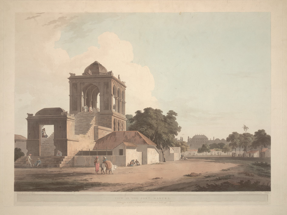 "View in the Fort, Madurai," by the artists and engravers Thomas and William Daniell. Coloured aquatint. Courtesy of the British Library, London.